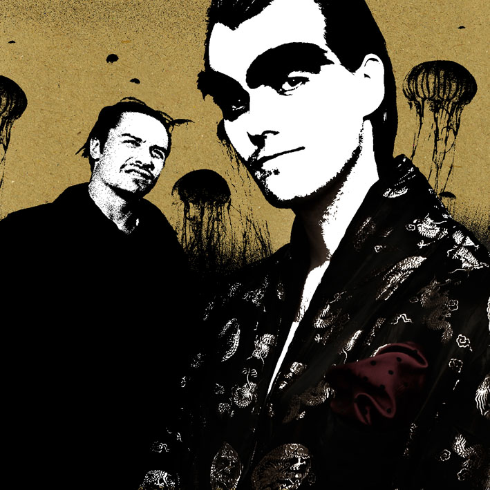 John Erik Kaada and Mike Patton - official promopicture